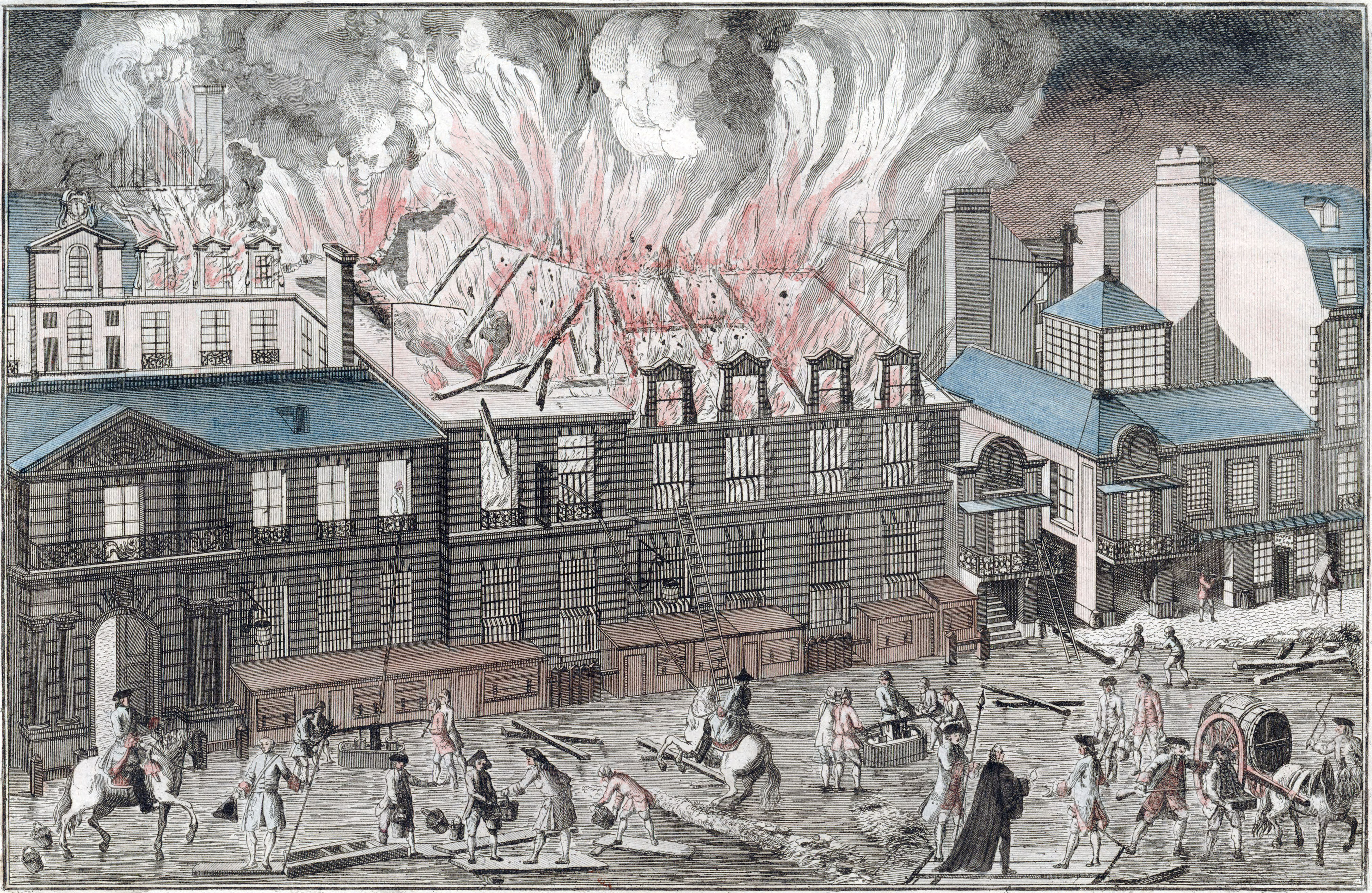 Destruction of the Paris Opera's first Salle du Palais-Royal by fire on 6 April 1763. (The print is reversed left to right in the original at Gallica.)